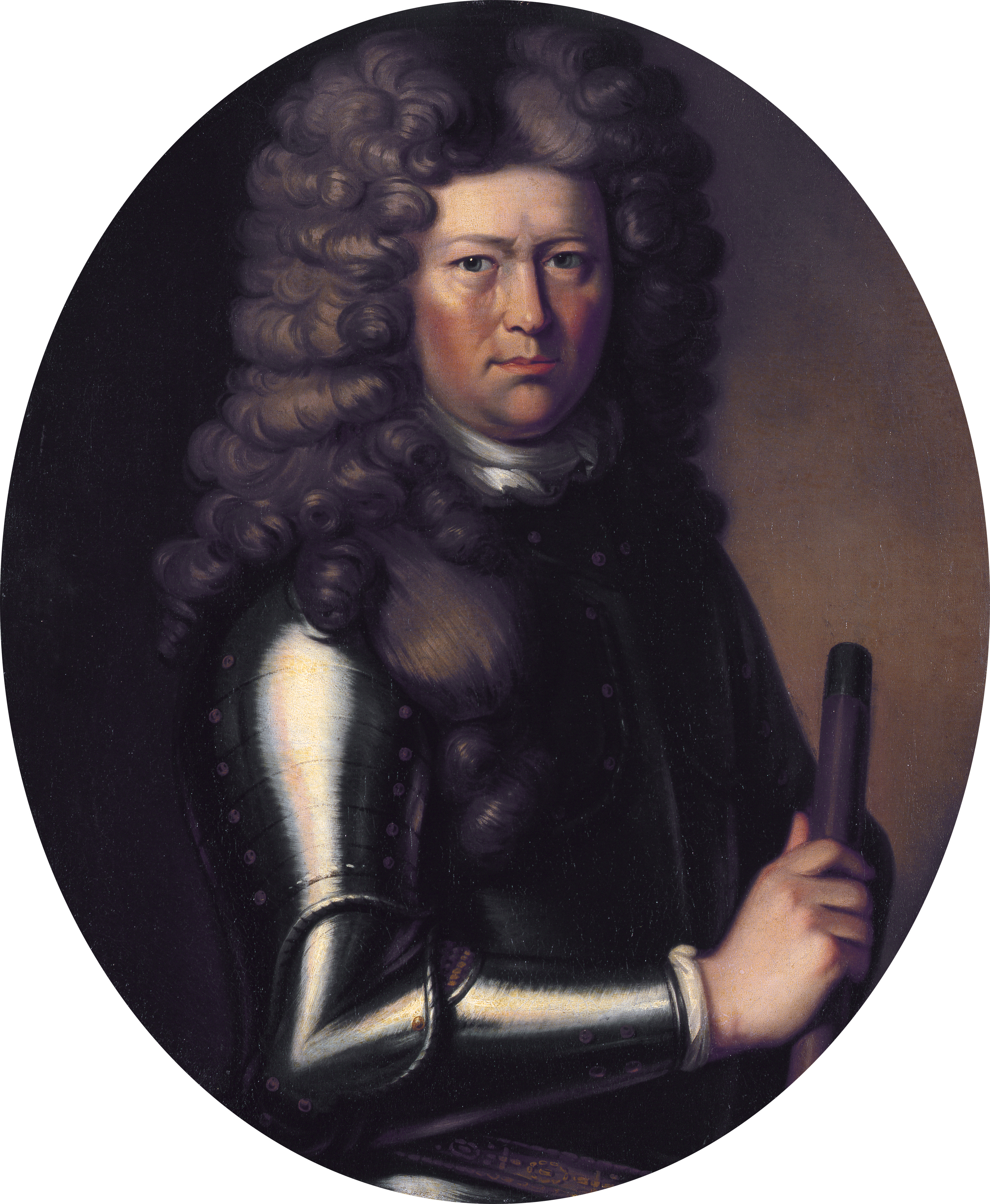 Dutch (origin from Norway) Admiral Cornelius Cruys (Cornelis Cruijs) - (1655 - 1727), in the service of Peter the Great, compiled and published an atlas of the River Don and the Sea of Asov.